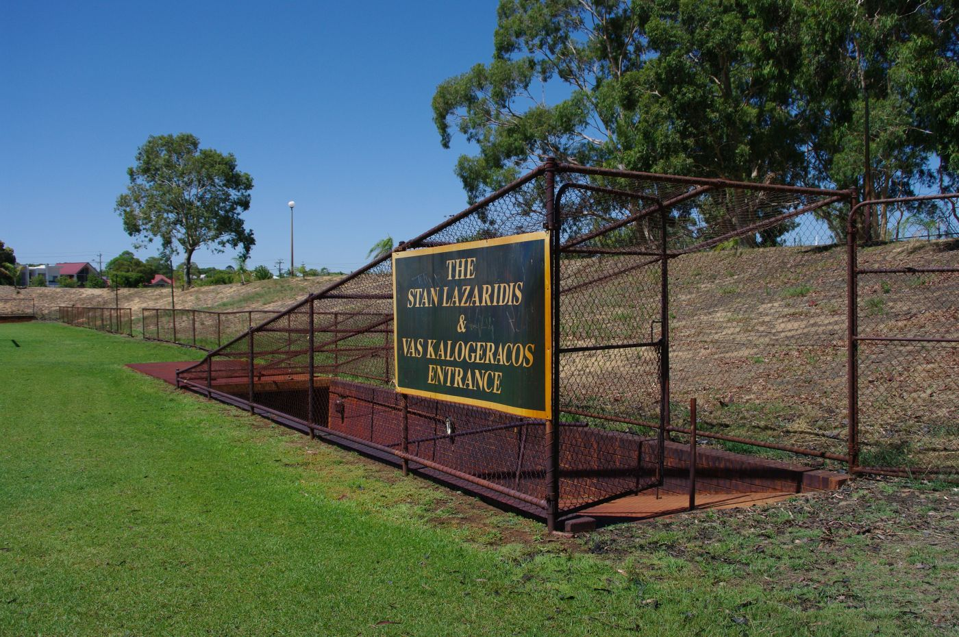 E & D Litis Stadium, formerly known as the Lake Monger Velodrome, home to Floreat Athena FC The tunnel that passed under the track and the seating so that cyclists could access the centrefield without interferring with the events, the bank behind where the track was situated, seats and seating embankment was removed during redevelopement